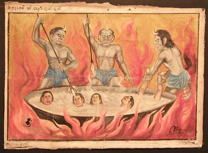 19th century Burmese temple painting. Tempura-like paint on cotton. 47” x 35”